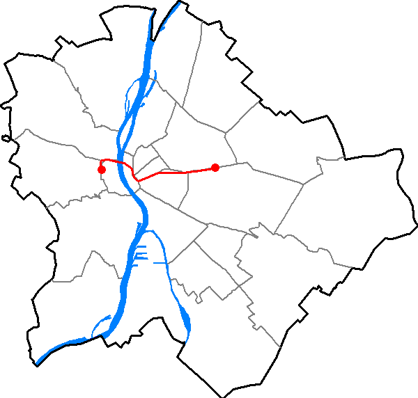 Map of underground line M2 in Budapest.